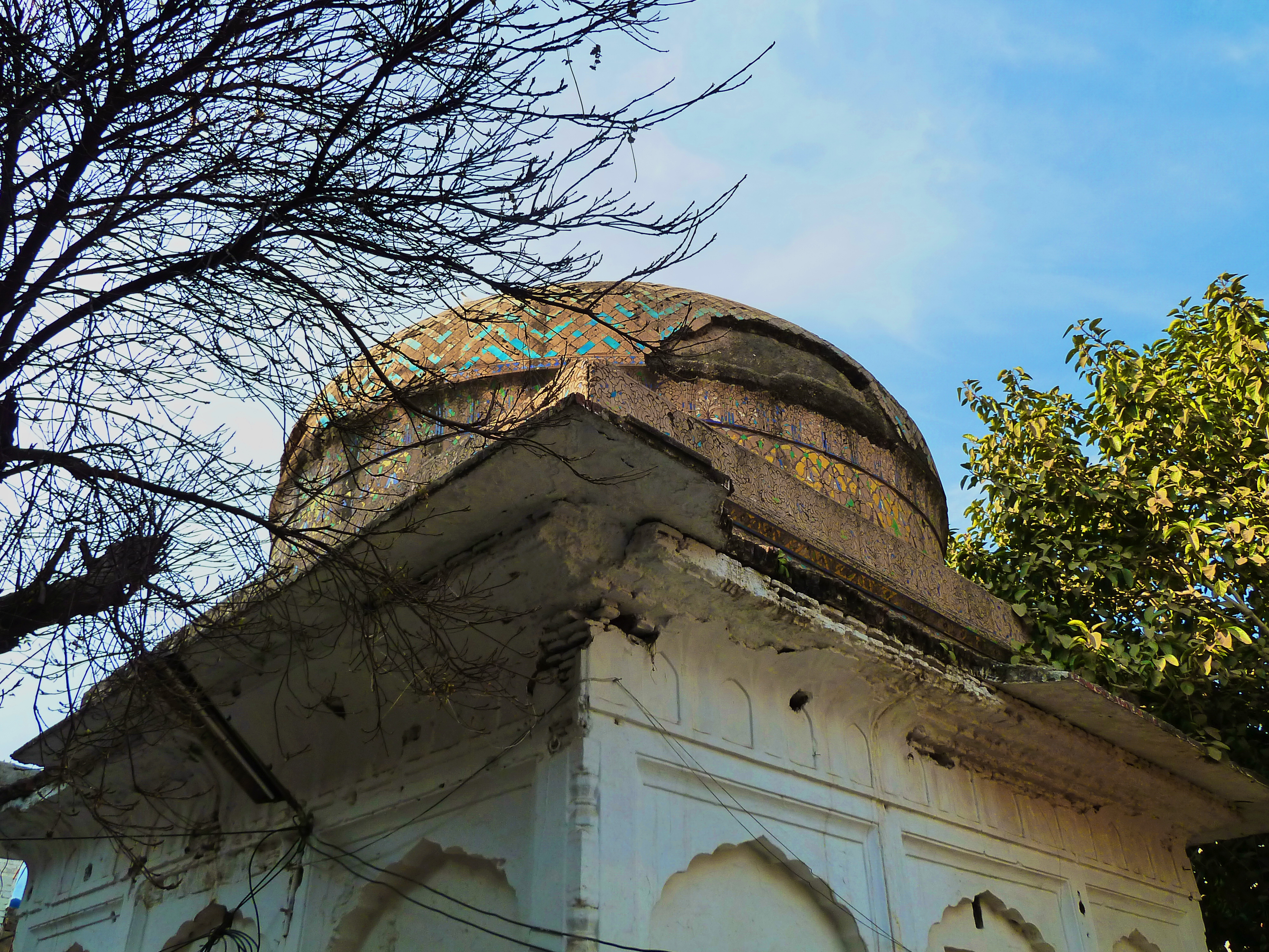 The tomb of Jani Khan, Baghbanpura, Lahore This is a photo of a monument in Pakistan identified as the PB-65